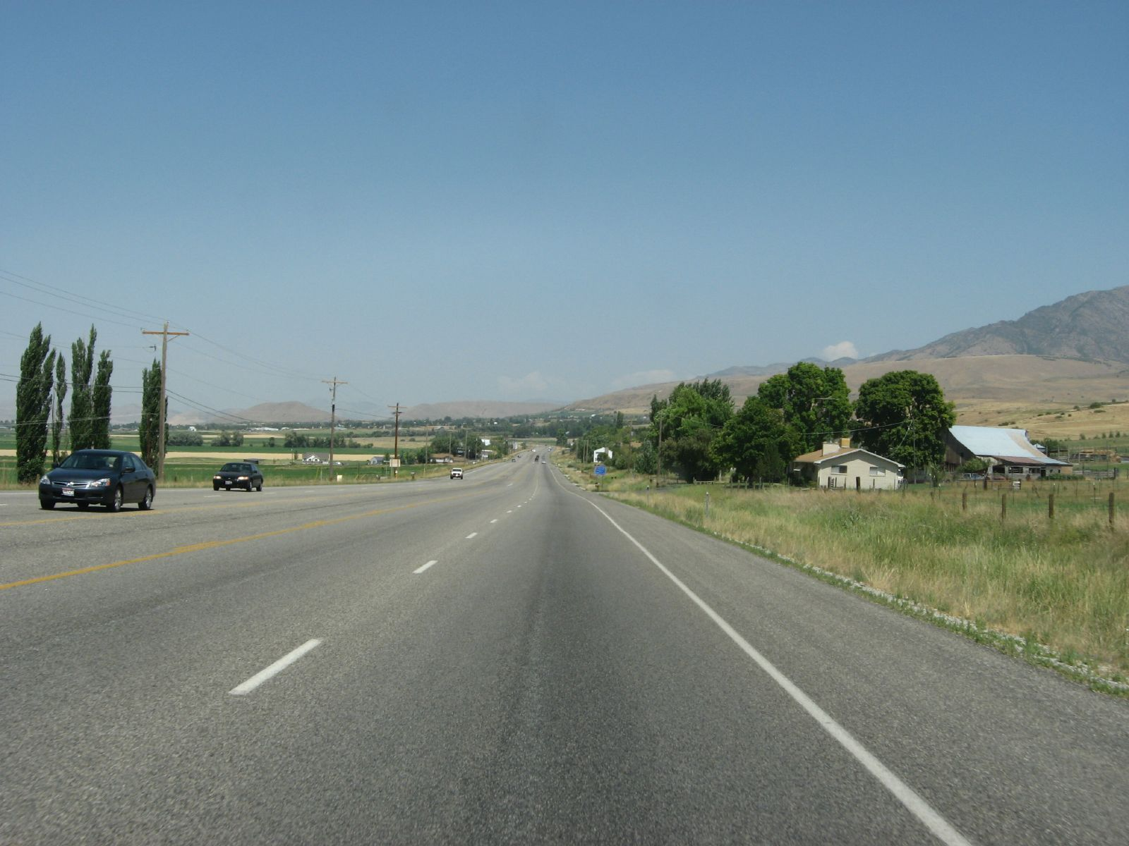 US-91 south of Richmond, Utah.